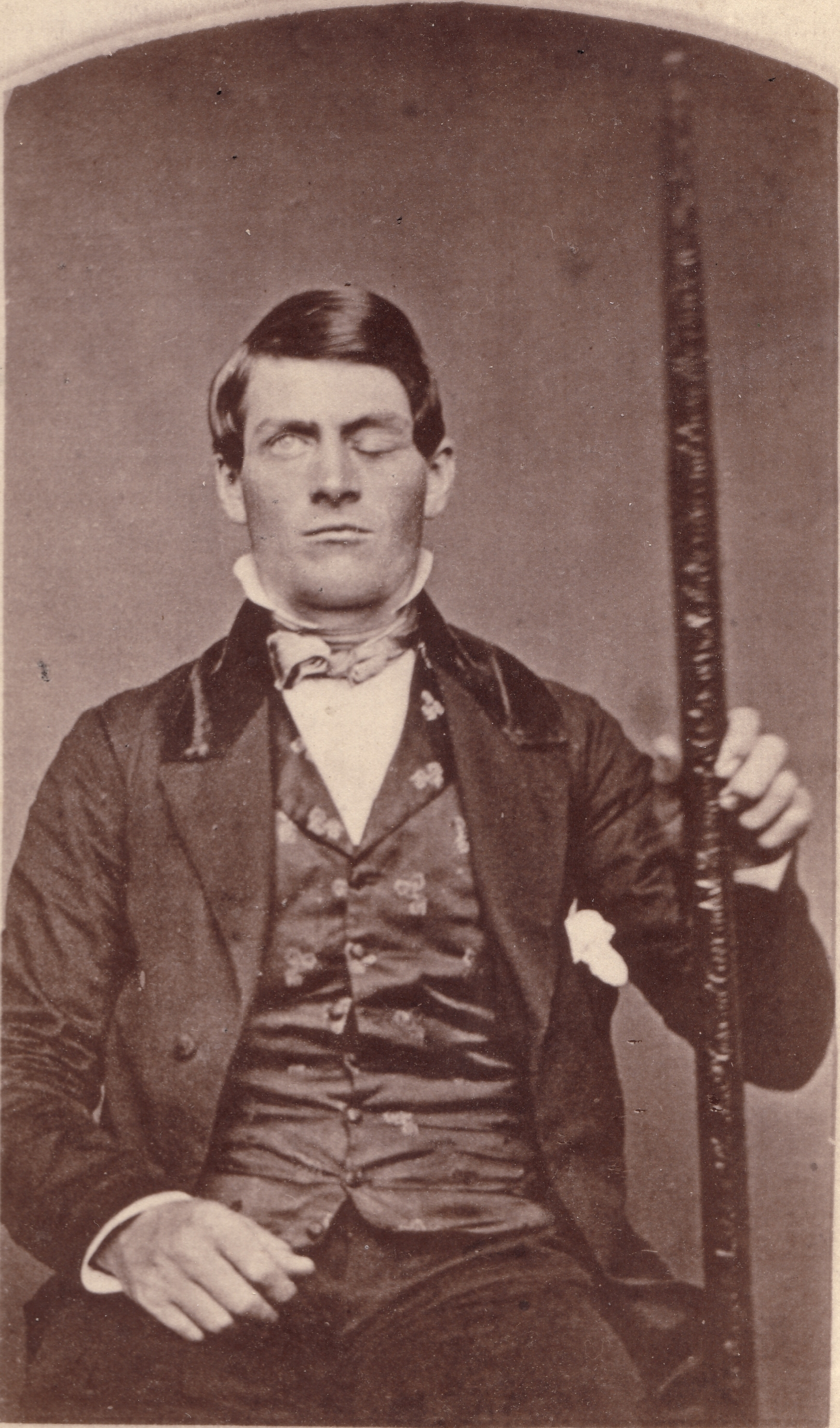 Cabinet-card portrait of brain-injury survivor Phineas P. Gage (1823–1860), shown holding the tamping iron which injured him; image cropped to remove much of surrounding card. From the Gage family of Texas photo collection. An identical image is in the possession of Phyllis Gage Hartley of New Jersey. Because a daguerreotype is almost always laterally (left-right) reversed, a second, compensating reversal has been applied to produce this image, so as to show Gage as he appeared in life; that this shows Gage correctly is confirmed by contemporaneous medical reports describing his injuries, as well as from the injuries visible in Gage's skull, still preserved.